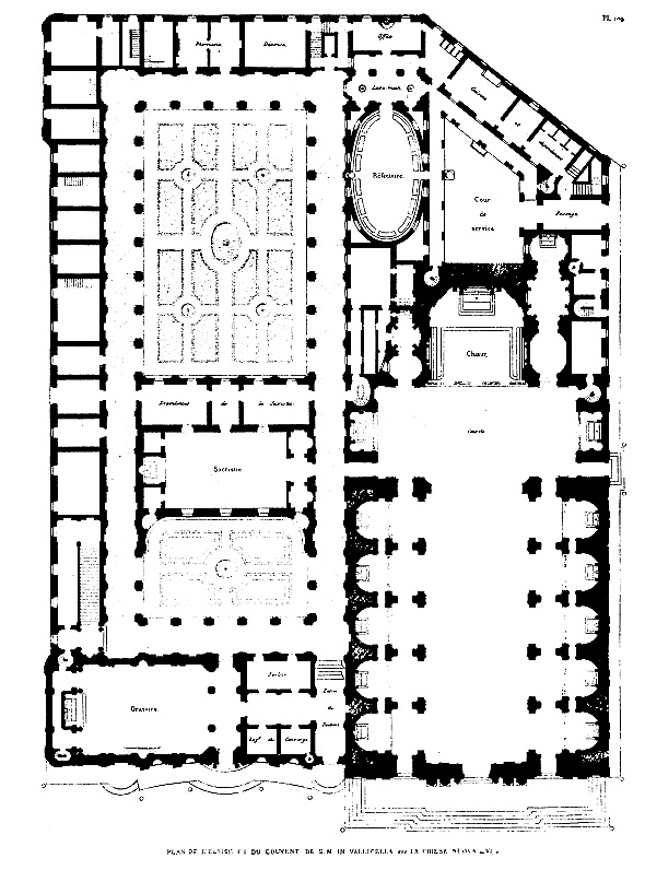 Plan of Chiesa Nuova (S. Maria in Vallicella), Rome